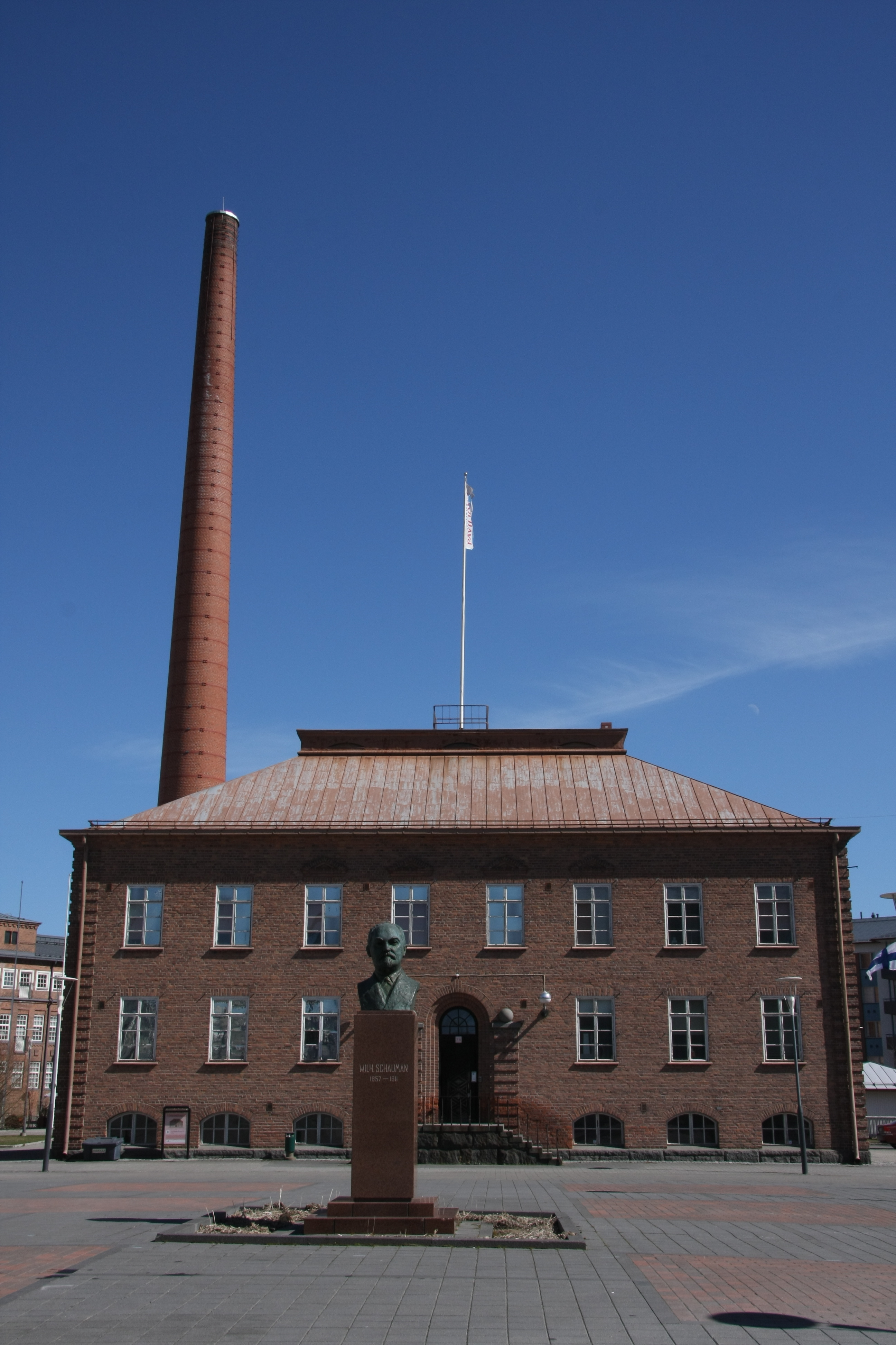 Neliötori ("The rectangle square") in Lutakko, Jyväskylä (Finland). The statue (made by Kalervo Kallio in 1959) represents Wilhelm Schauman, the patron of the plywood factory situated in the area 1911–1995. The building and the smokepipe in the background are last remaining parts of the factory.